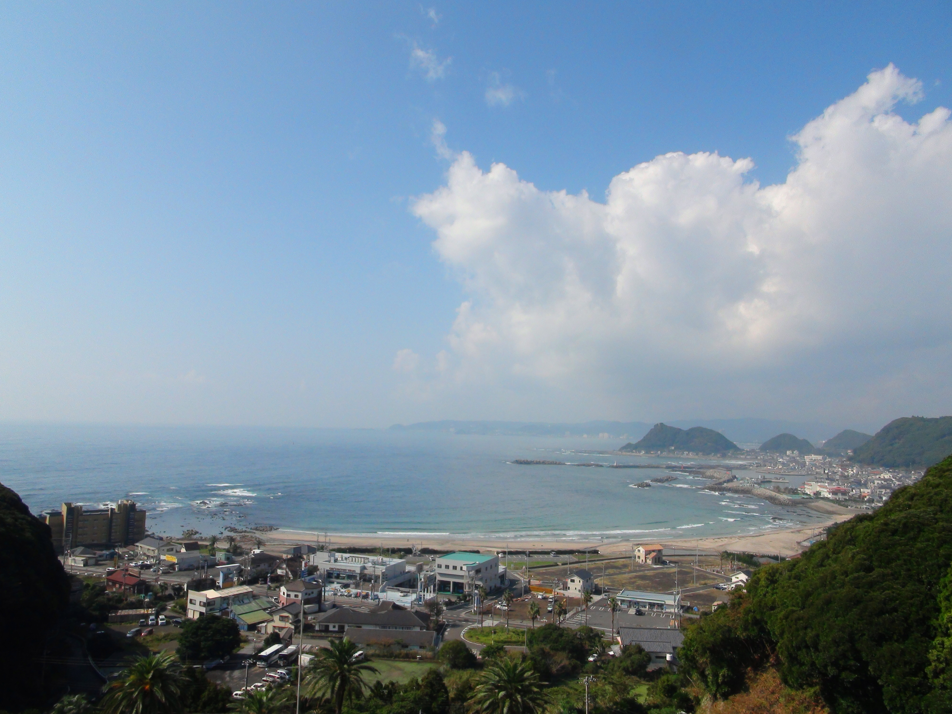 Amatsu Coast